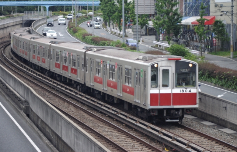 Osaka Subway 10 series EMU set 1104 on the Kita-Osaka Express Line between Senri-Chuo and Momoyamadai